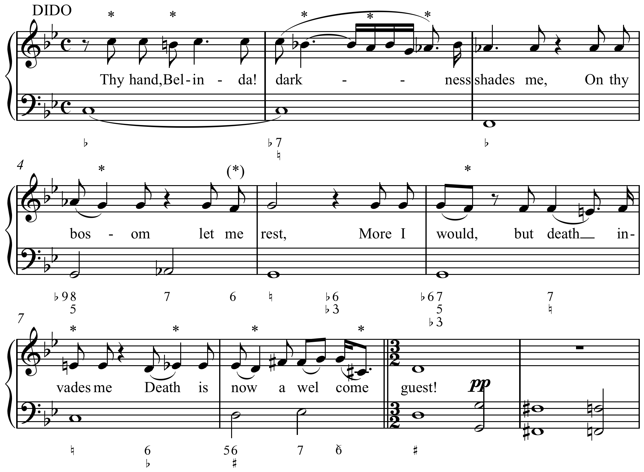 This image was copied from en. The original description was: Melody from the opening of Henry Purcell's "Thy Hand, Belinda", Dido and Aeneas (1689) with figured bass below. (Update: the first and second notes in the third bar is “a” not “aes”). Created by Hyacinth (talk) using Sibelius 5.